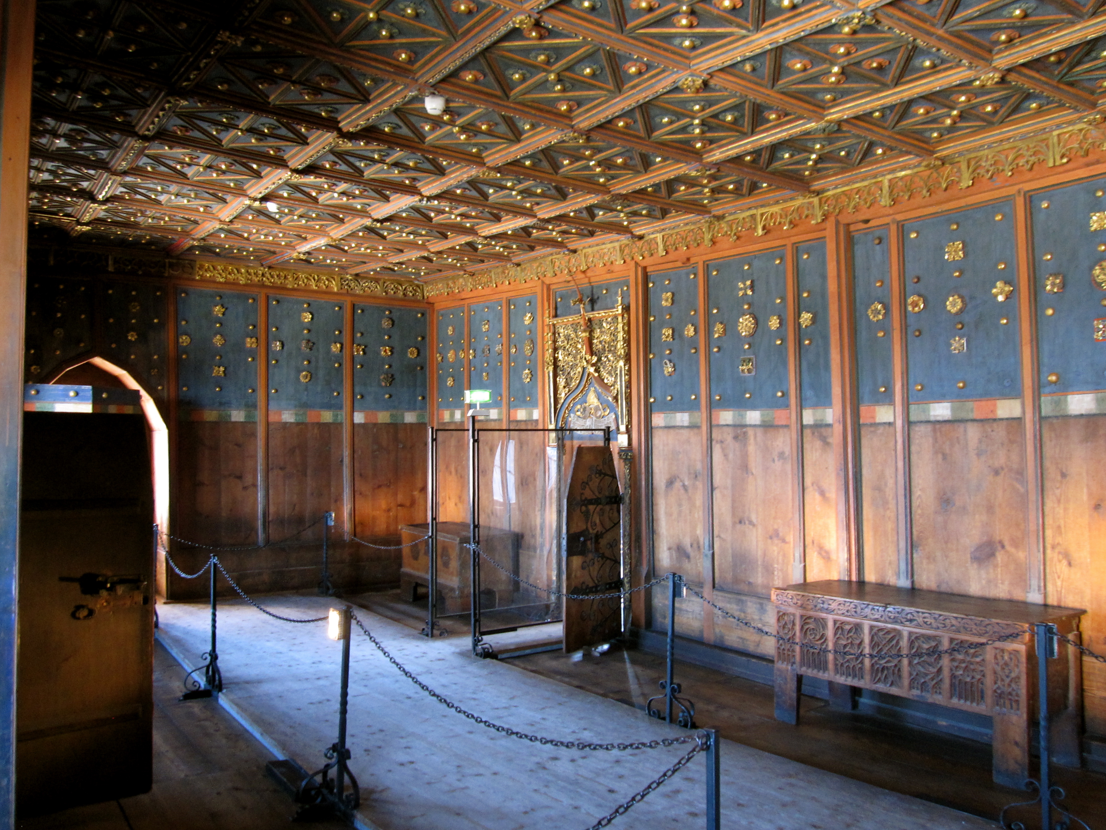 Former bedroom of the prince-bishop in Hohensalzburg Castle